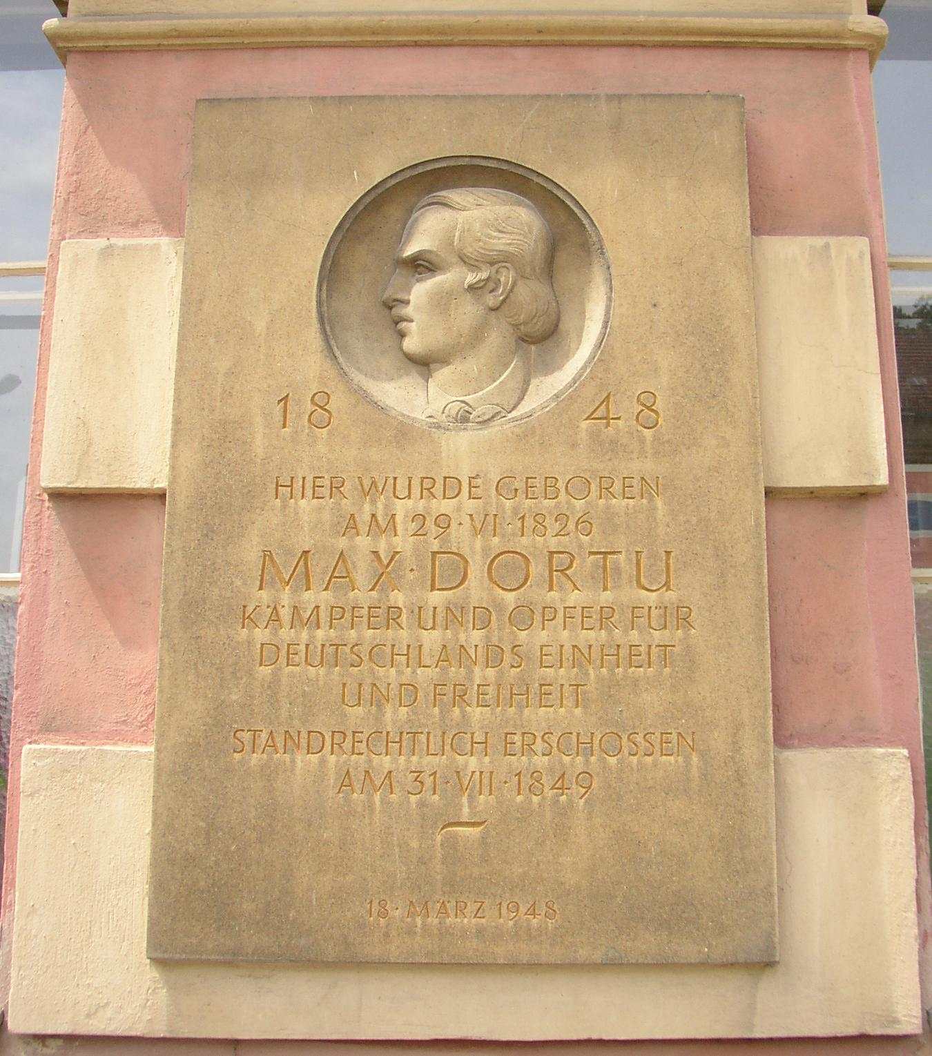 Memorial plaque for Johann Maximilian Dortu in Potsdam, Germany